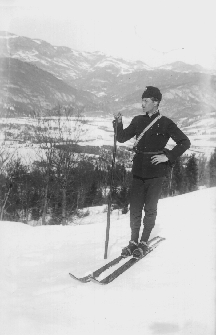 Rudolf Badjura (1881-1963), slovene officer and skier